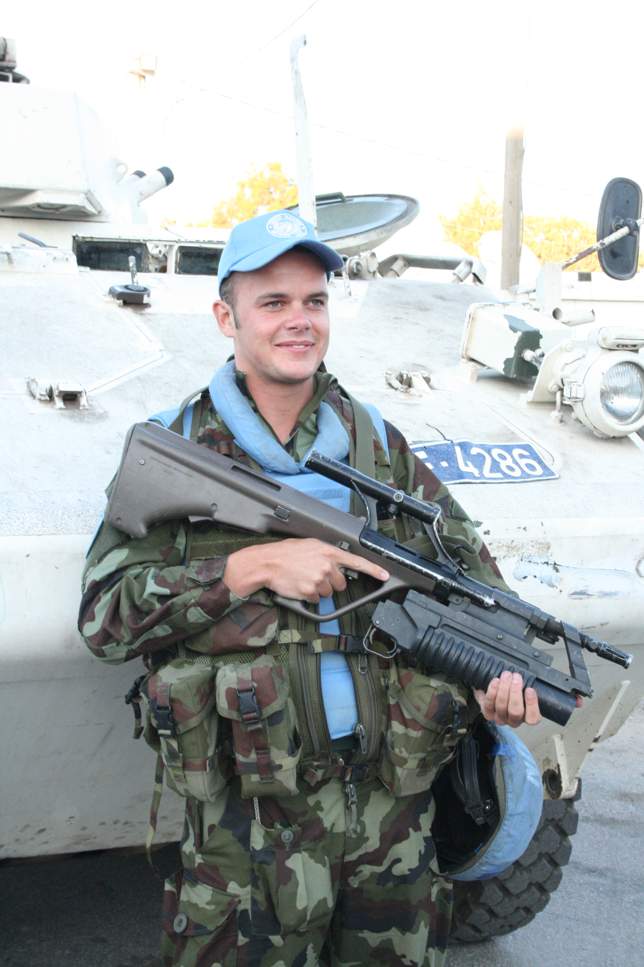 PTE COREY O DWYER OF KILKENNY CITY, RIFLEMAN, 3 SECTION, 1 PLN I would like to wish my 3 year old son Sam all the best from Syria this father’s day. can’t wait to see you when I’m home on leave. lots of love, Dad.